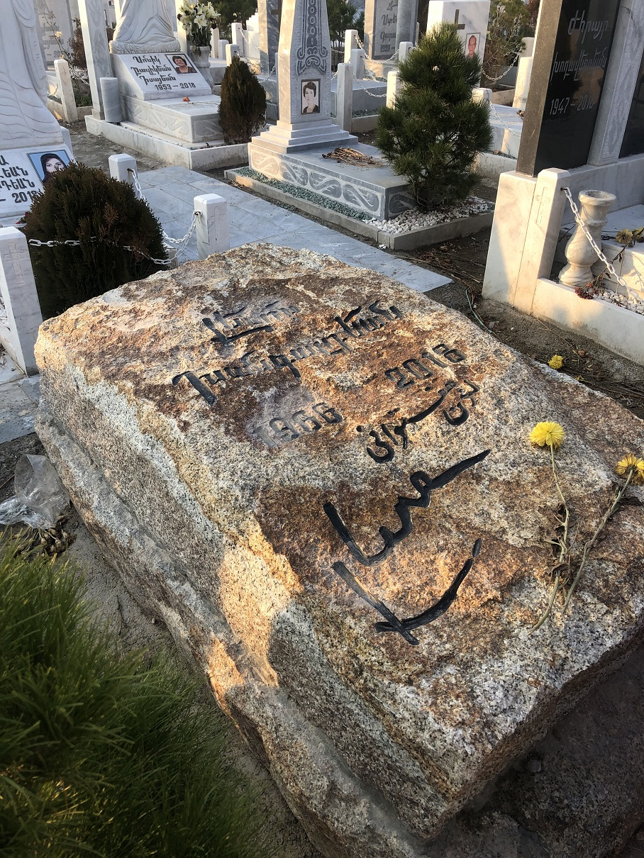 Burastan Cemetery